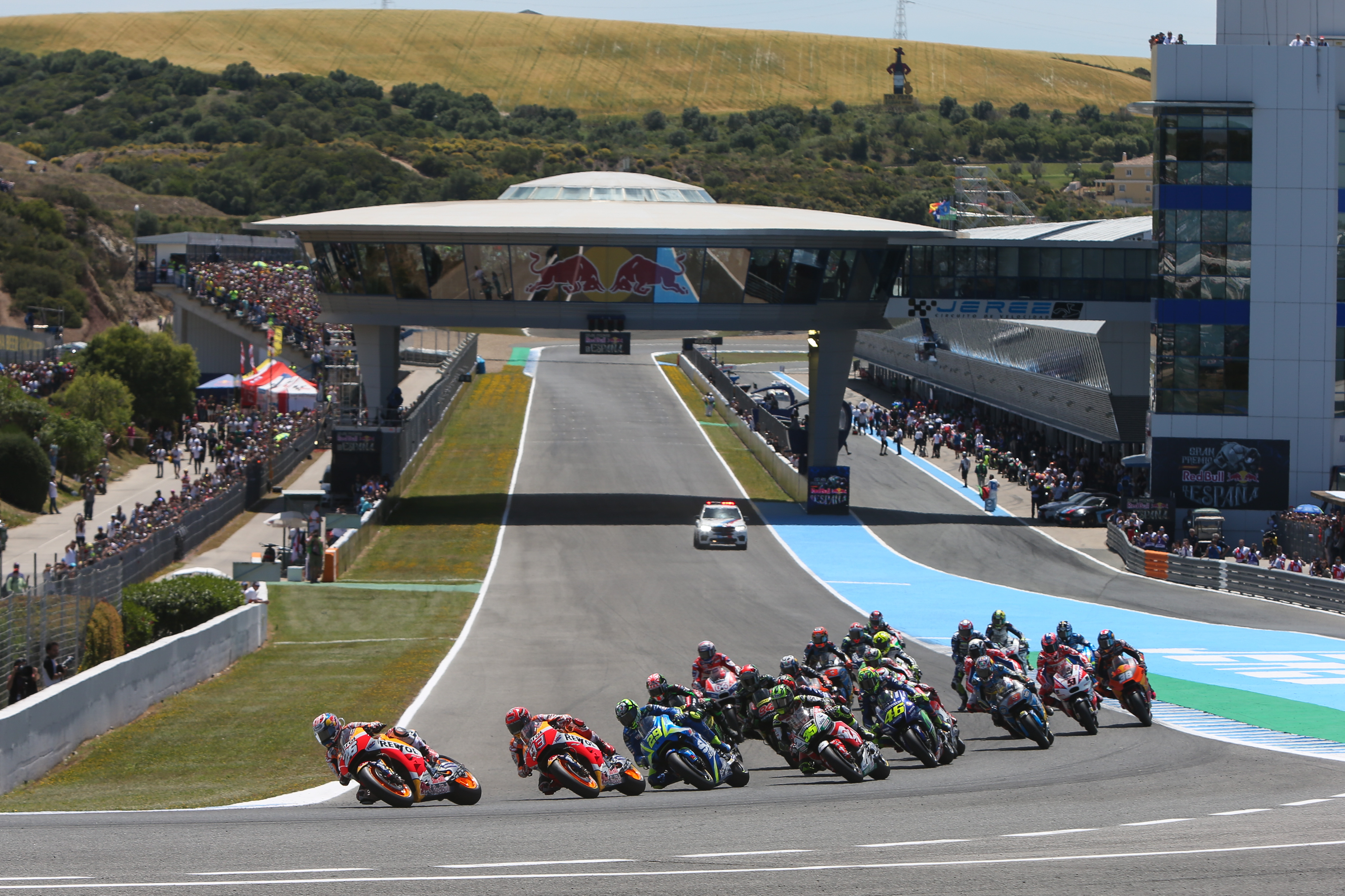 Dani Pedrosa, riding his Repsol Honda, leading the pack on the opening lap of the 2017 Spanish Grand Prix.